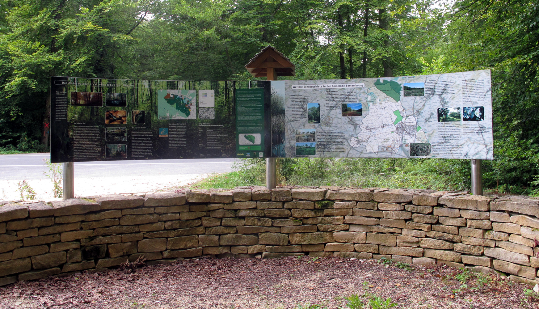 Info tables about nature reserve Beetebuerger Bësch in Luxembourg